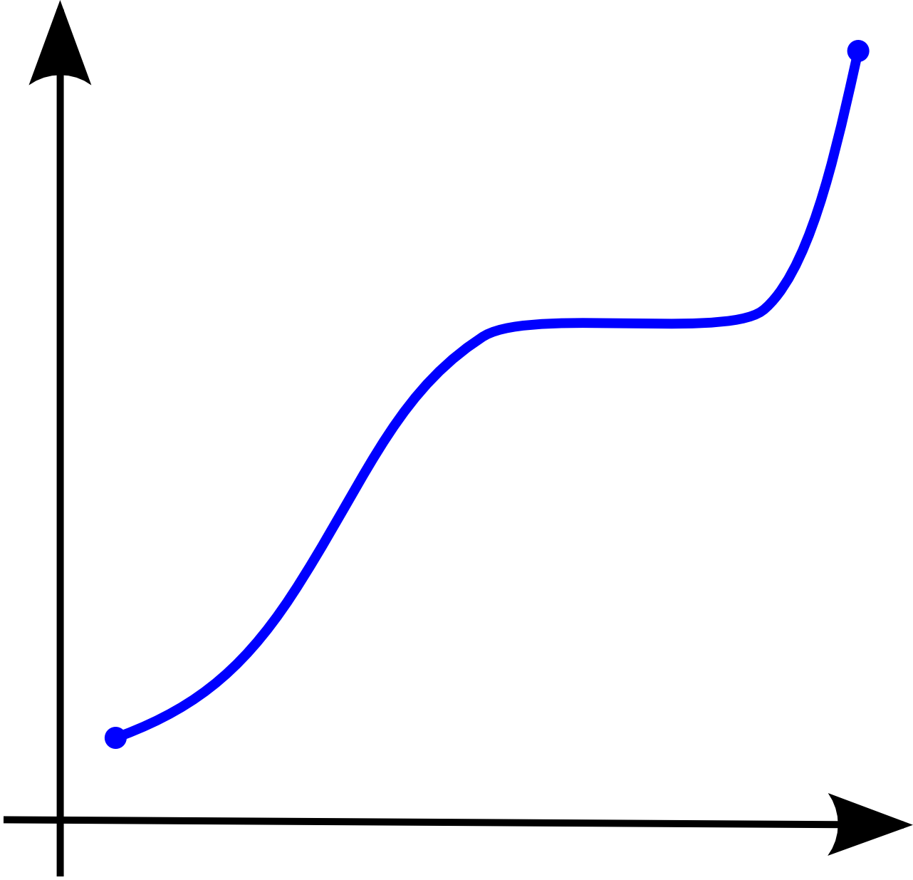 Illustration of a monotonic function.